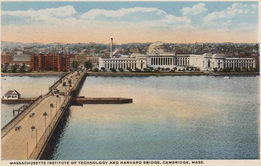 Harvard Bridge over the Charles River, showing the new Massachusetts Institute of Technology campus. Range of dates of the image is limited to between 1916 and 1924. MIT moved to that location in 1916. The swing span on the bridge was removed in 1924.